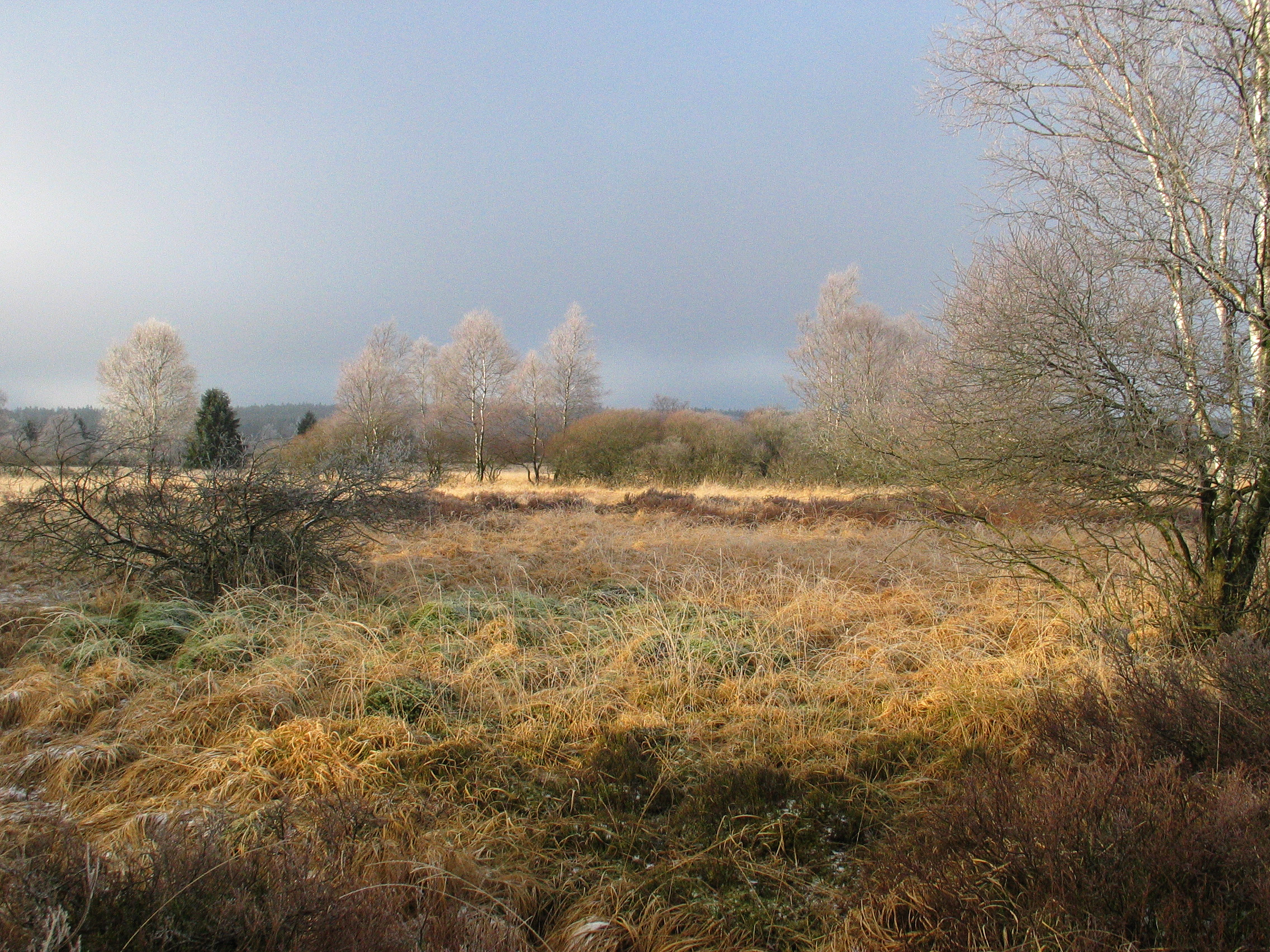 Typical landscape of the Hautes Fagnes, in East-Belgium, near the German border. Locality of Kutenhart, near Brackvenn (between Eupem -BE- and Monschau -DE-, near the village of Mützenich -DE-).